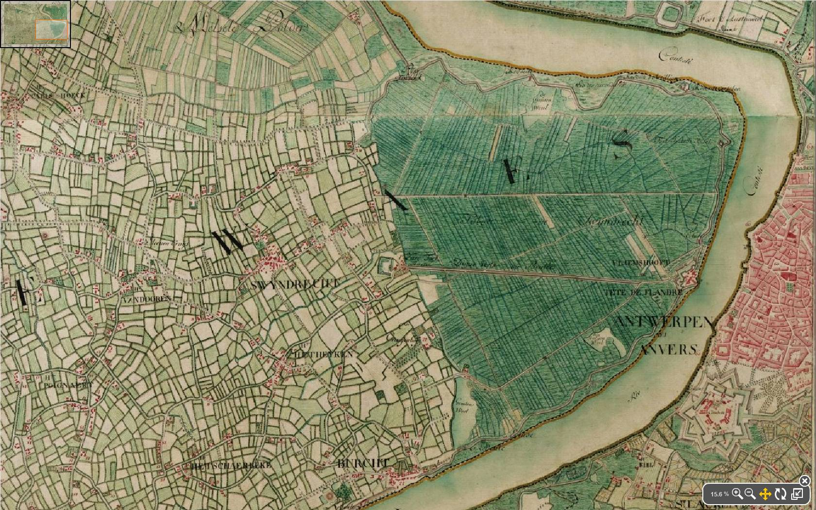 Zwijndrecht, Burcht, Linkerover, Antwerpen, belgium